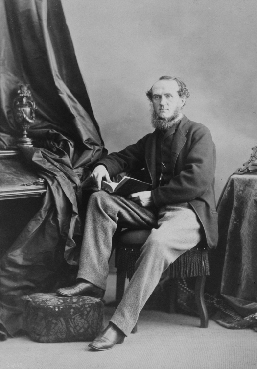 William Notman, photographer, Montreal, QC, 1866-67